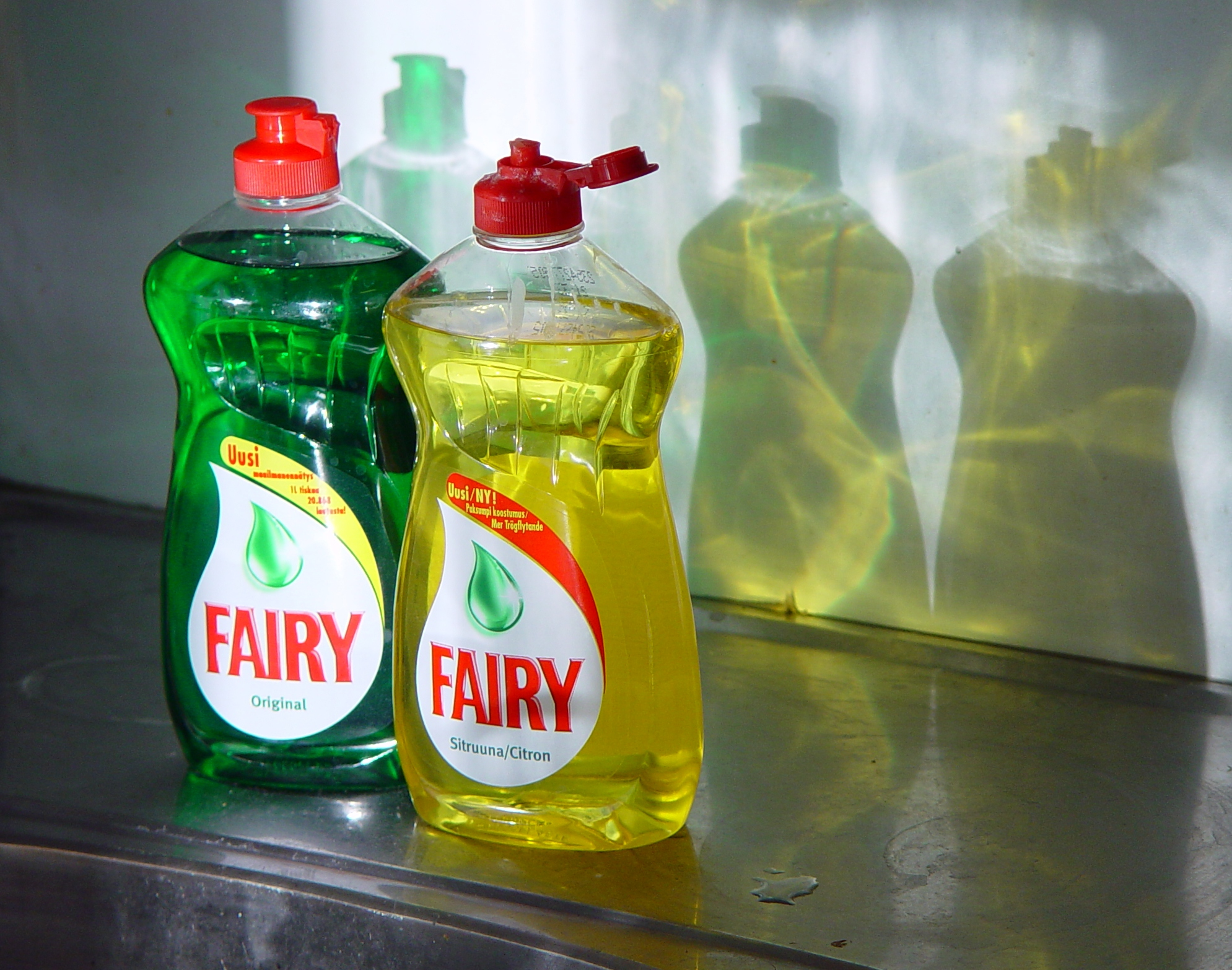 Two bottles of Fairy dish-washing detergent with Finnish labels.